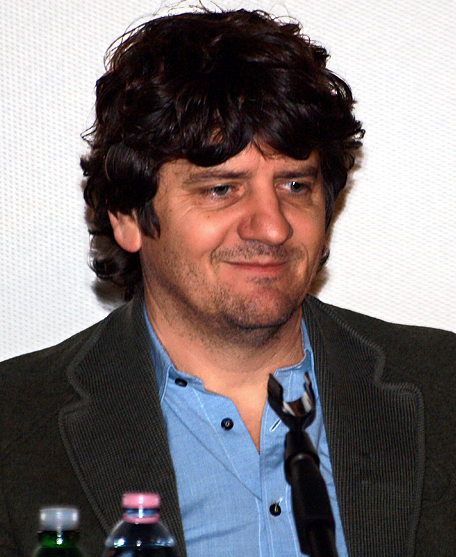 Italian actor Fabio De Luigi